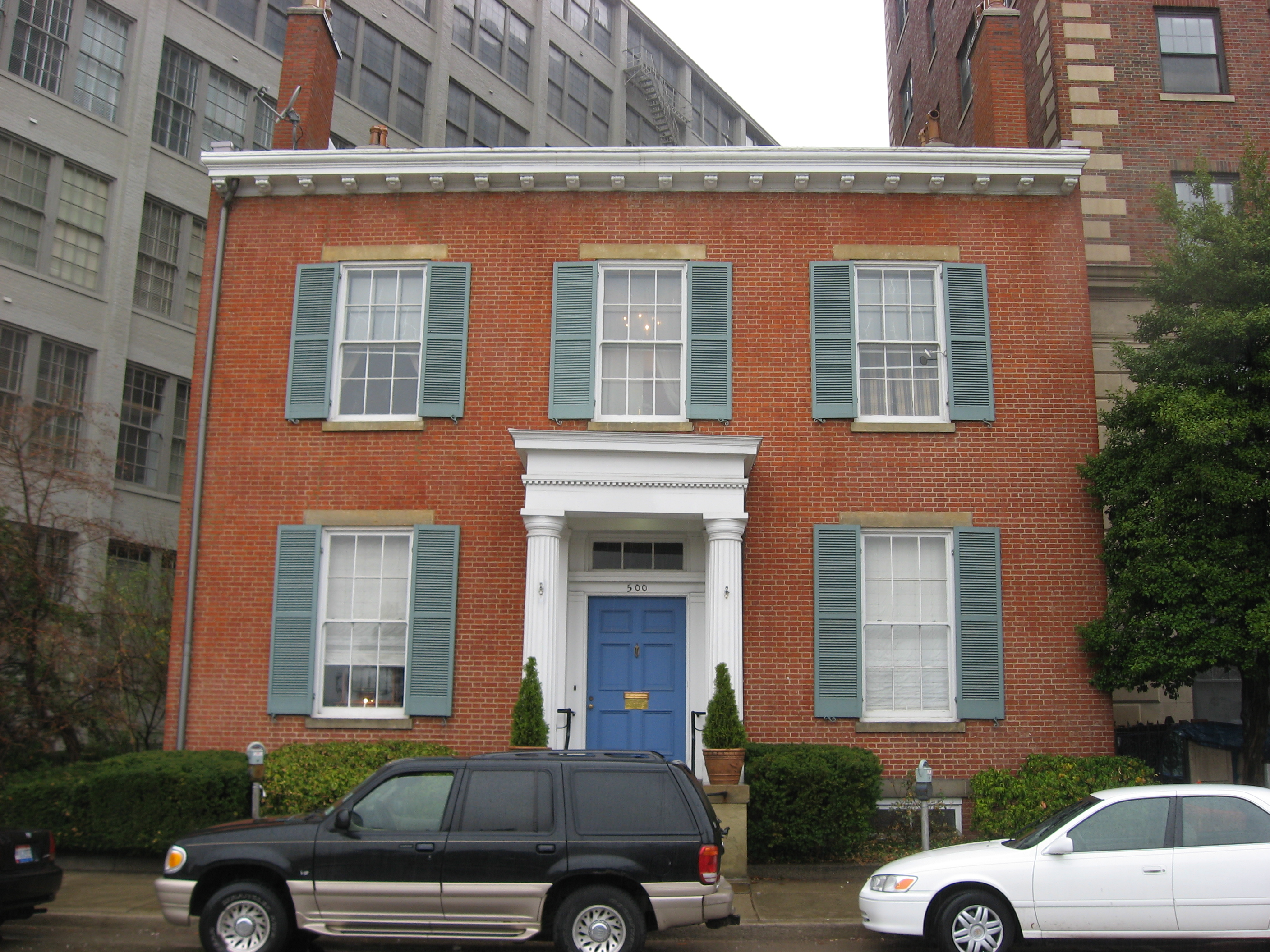 Front of a house at the intersection of Fourth and Lawrence Streets in Cincinnati, Ohio, United States. Built in 1820, the house (now the home of the Literary Club of Cincinnati) is located within the boundaries of the Lytle Park Historic District, a historic district that is listed on the National Register of Historic Places.